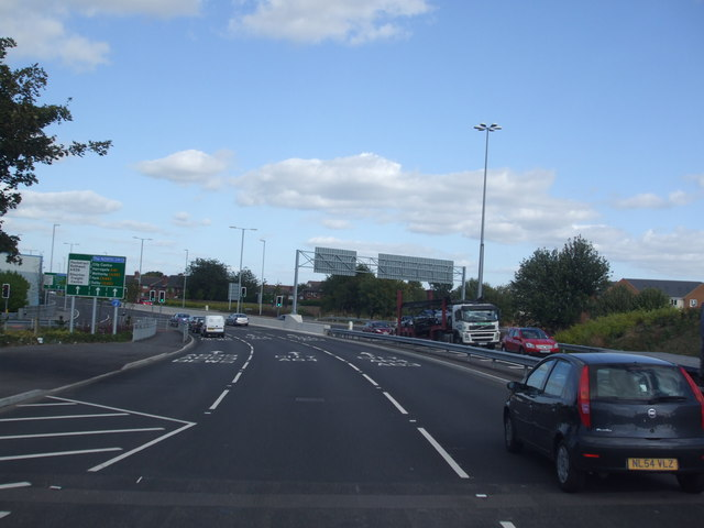 A61 at M621 junction 4